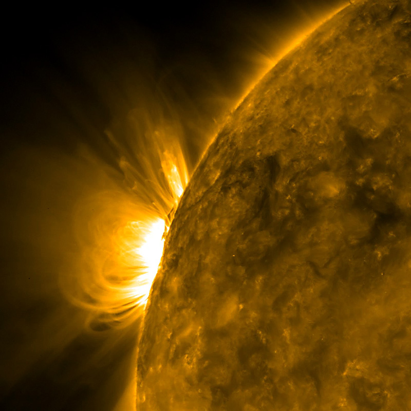 As the arcing loops above an active region began to rotate into a nice profile view, SDO captured the dynamic, magnetic struggles taking place below (July 6-8, 2010). Particles spiraling along magnetic field lines trace their paths. Magnetic forces in the active region are connecting, breaking apart, and reconnecting. These images were taken in extreme ultraviolet light. Although mostly hidden from our view, the active region did unleash a number of small flares.